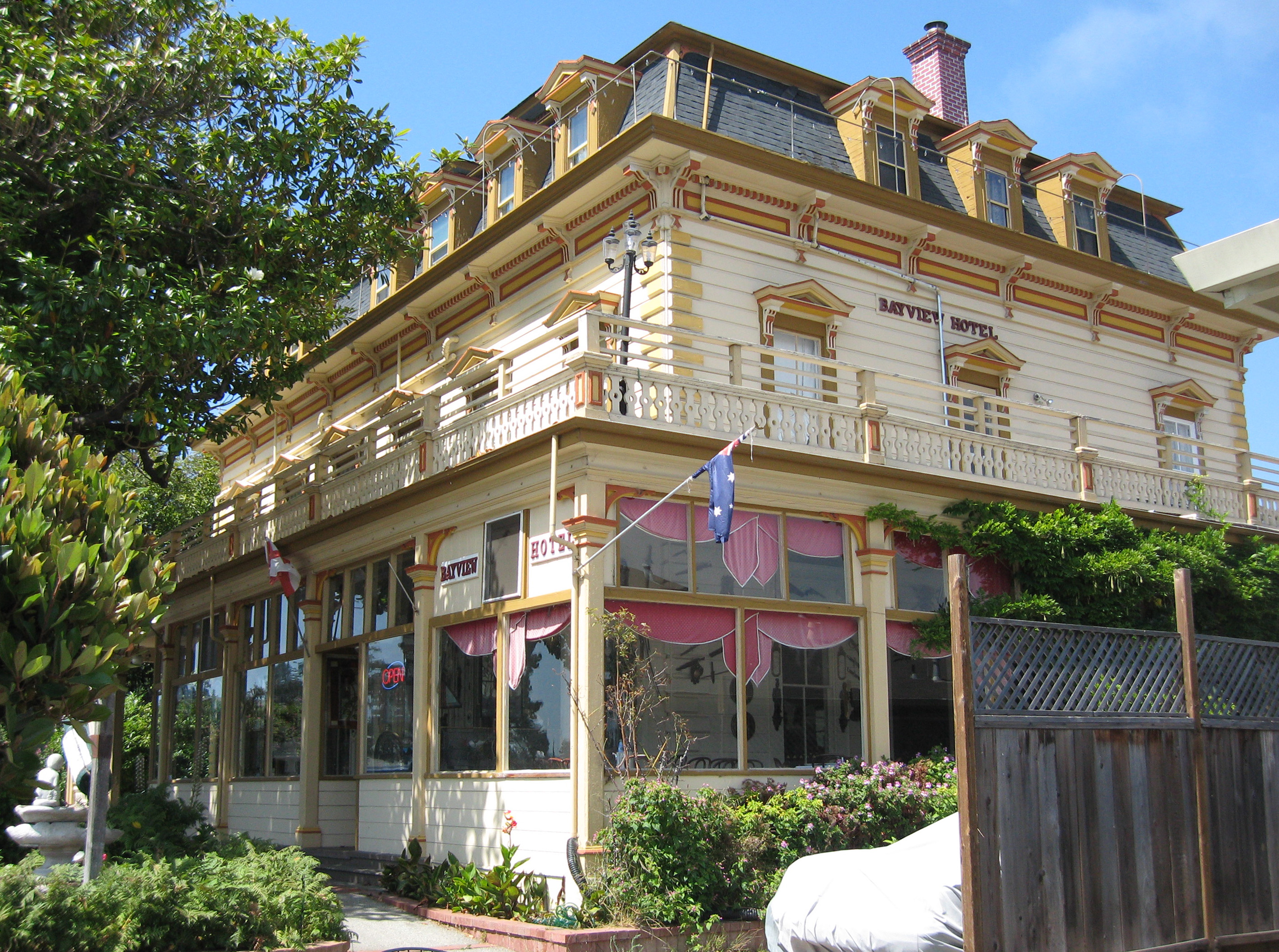 The Bayview Hotel is a historic building in Aptos California. It was built in 1878, and added to the National Register of Historic Places in Santa Cruz County, California on March 30, 1992